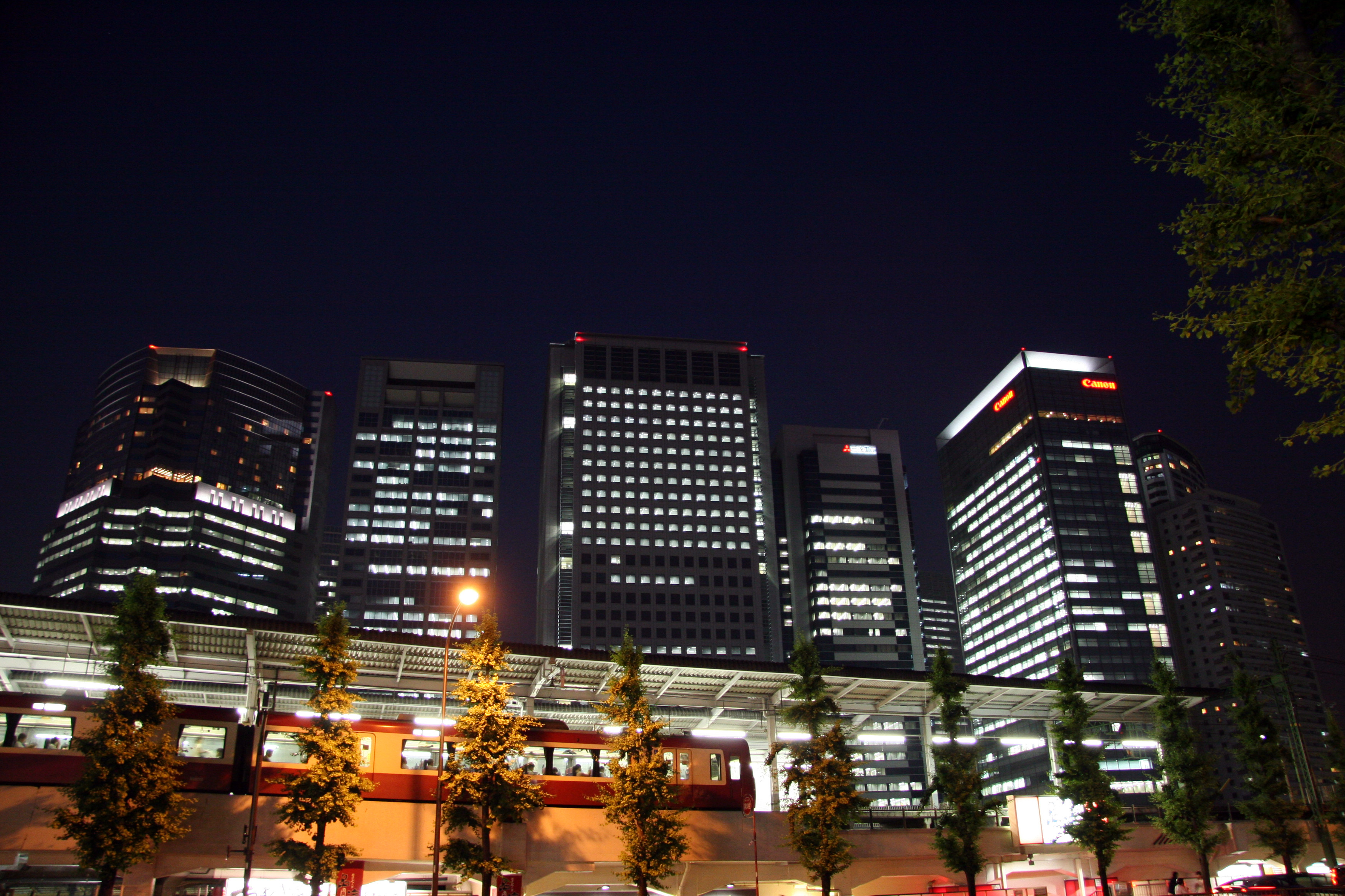 Shinagawa,Tokyo,Japan